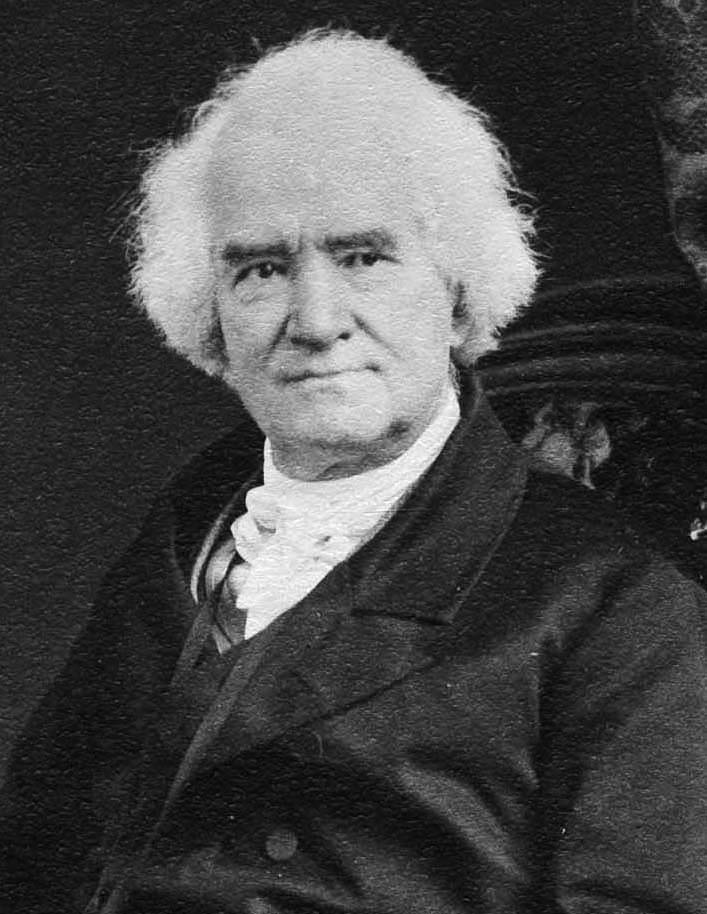 Daguerreotype of George Mifflin Dallas.